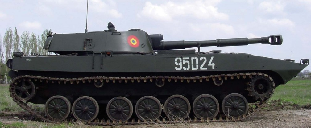 Model 1989 SPG (2S1 turret on MLI-84 chassis).